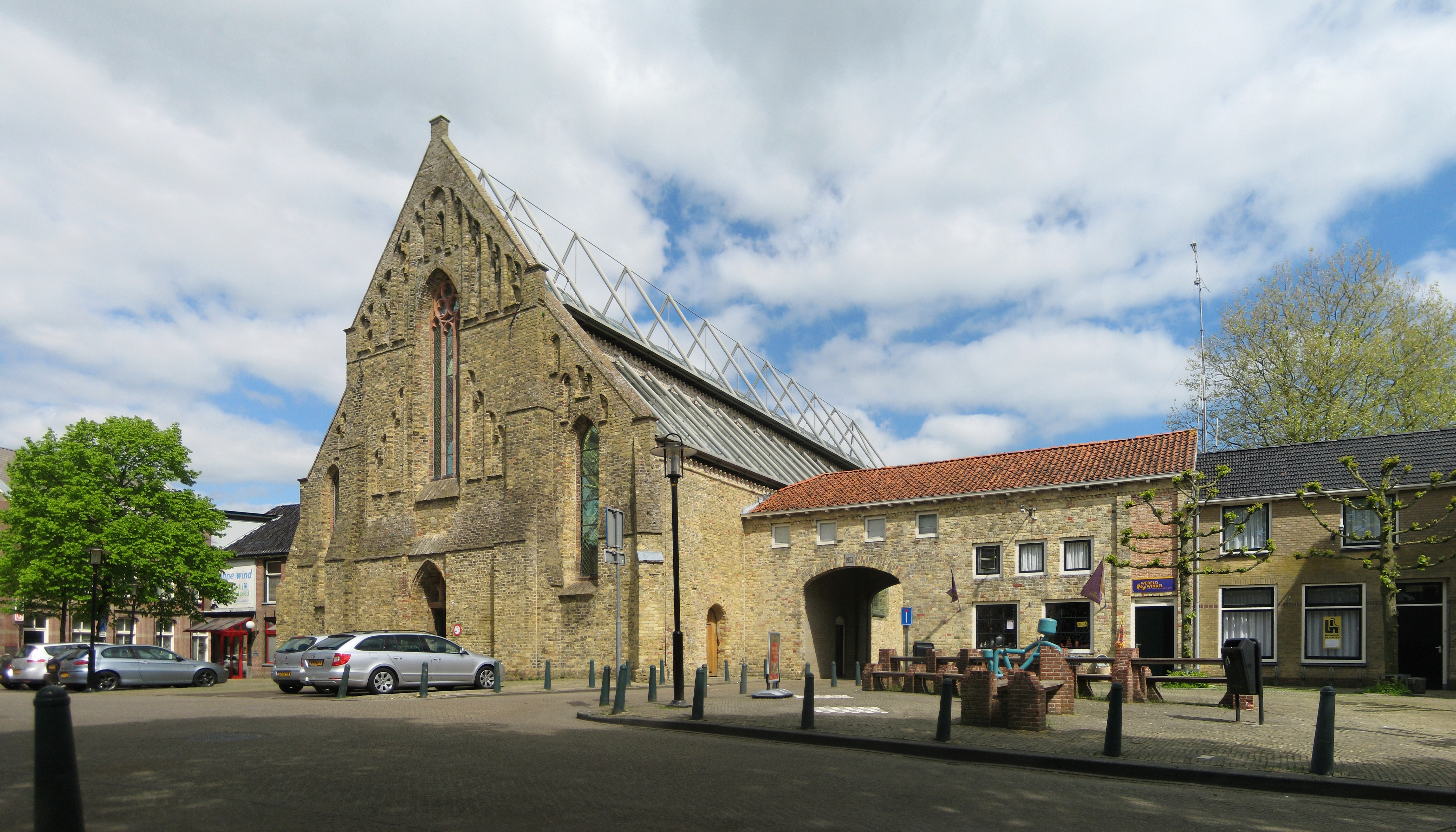 The Broerekerk in Bolsward, a city in the Dutch province of Fryslân.